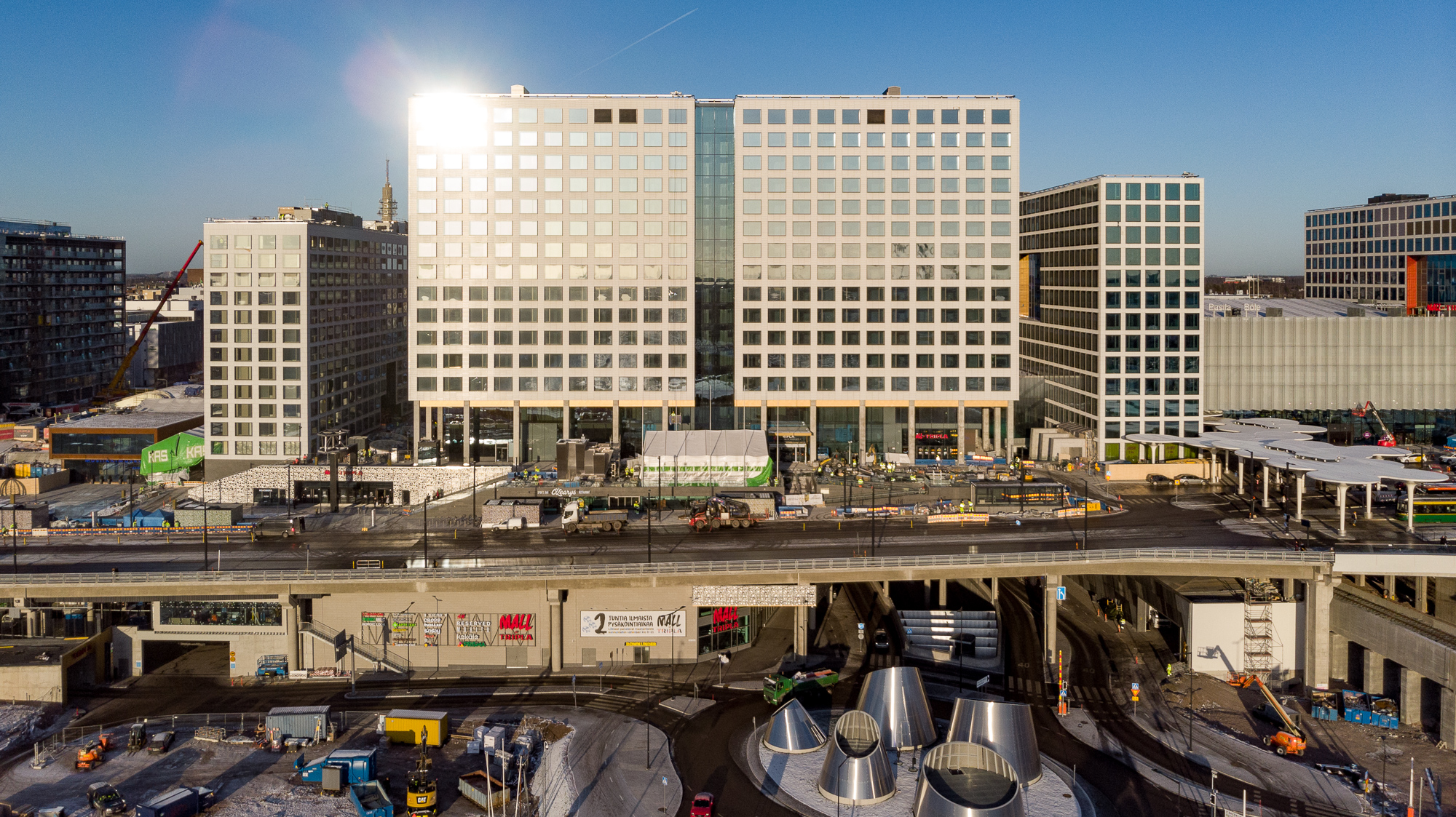 Mall of Tripla reflecting midday winter sun in Pasila, Helsinki, Finland